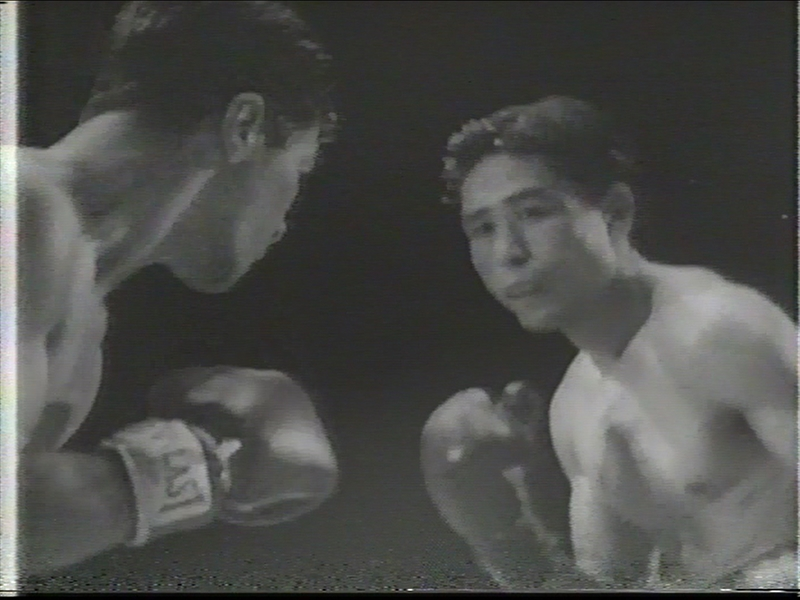 Yoshio Shirai (on the right) and Dado Marino in their World flyweight title match in May 1952.